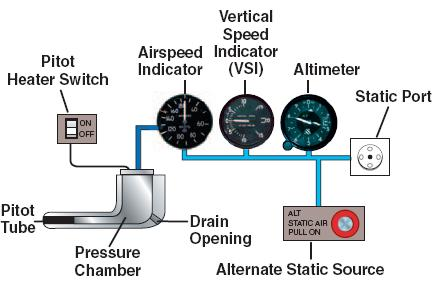 Extracted from the Pilot's Handbook of Aeronautical Knowledge, AC 61-23C, online at Diagram of pitot-static system, including static port and pitot tube as well as the pitot satic instruments